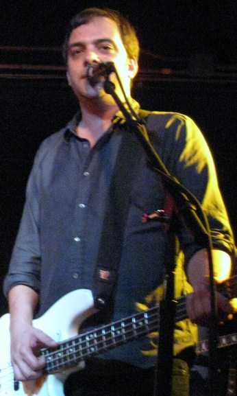 Power pop supergroup Tinted Windows play at the Washington, D.C. nightclub The Black Cat in August 2009, photographed by Claire Powers. This image was taken at the same time as these three pictures. This image is a cropped and shrunken version of the original photograph, with some tones and textures adjusted.